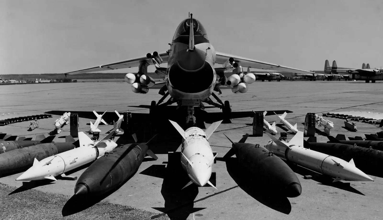 A Vought F-8D Crudaser with possible armament: In the center in front of the aircraft lies a AGM-12C Bullpup missile, next to it are Mk 83 454 kg (1,000 lb) bombs, AGM-12As, and Mk 82 227 kg (500 lb) bombs. To the right and left of the F-8D are four AIM-9B Sidewinder missiles, and two multiple ejector racks. Six LAU-3/A rocket launchers are carries on the underwing pylons, and four 12.5 cm (5 in) "Zuni" rockets are fittet to the fuselage launch rails.